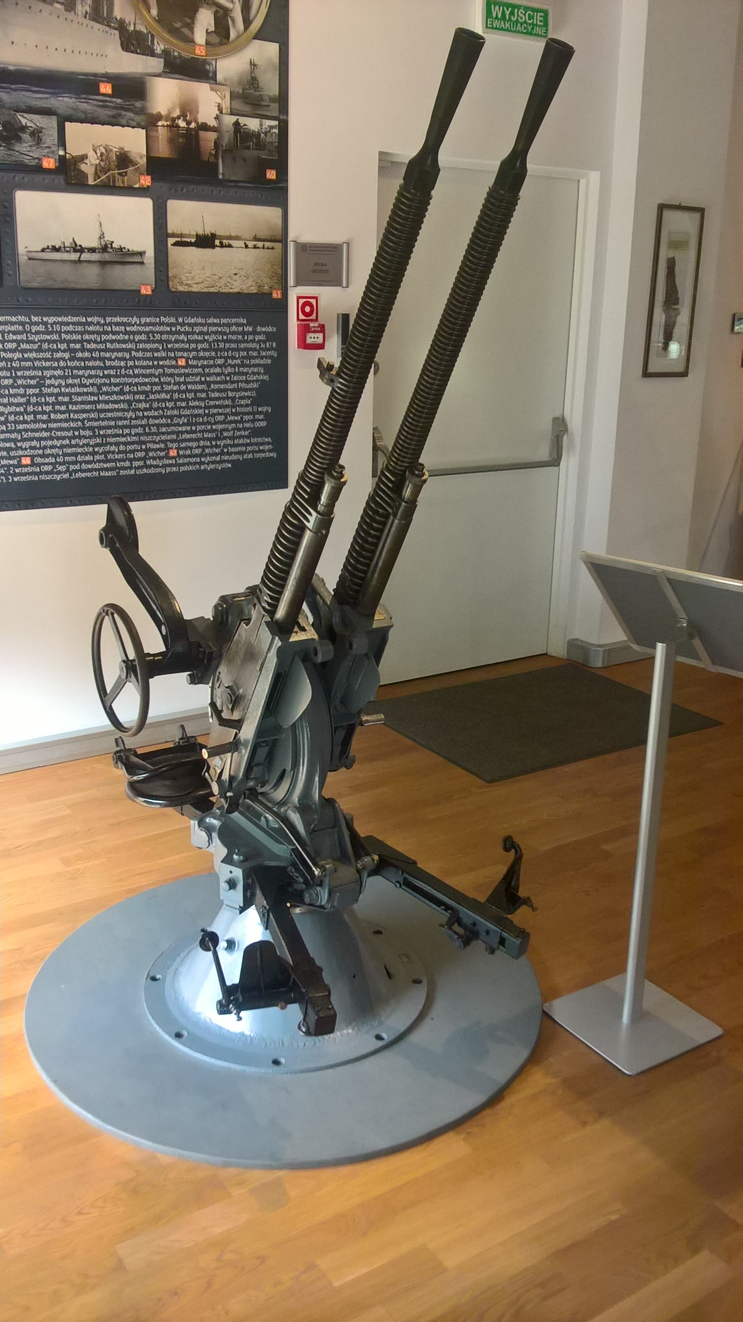 13.2 mm Hotchkiss machine gun wz. 1930. Removed from the submarine ORP "Żbik" (1931), currently on display at Naval Museum Gdynia.